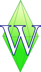 Logo for WikiProject Sims on Simple English Wikipedia